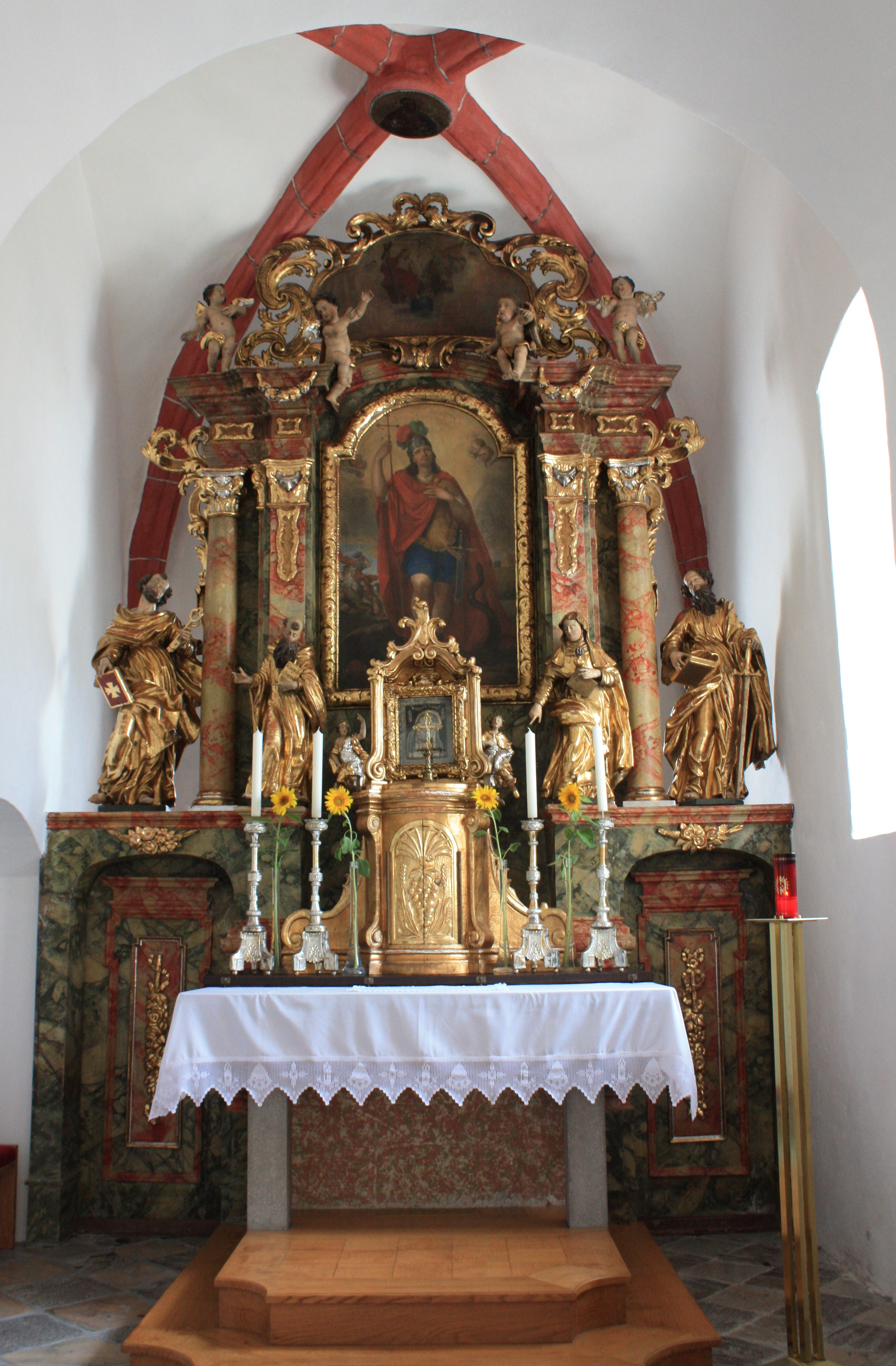 Parish church - Main altar Locality: Sankt Georgen im Lavanttal Community:Sankt Georgen im Lavanttal